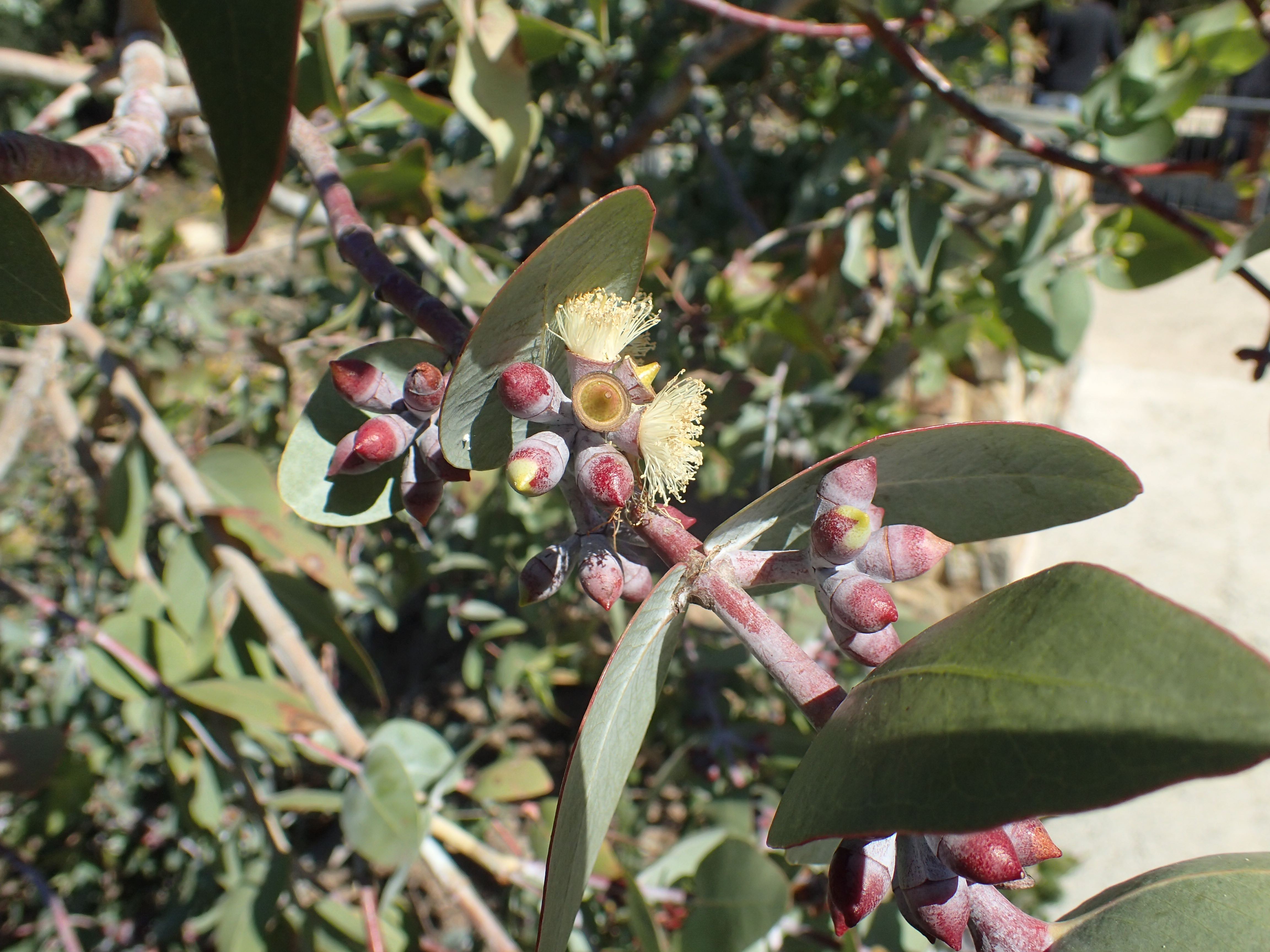 Flower buds and flowers of Eucalyptus mooreana in Kings Park, Perth